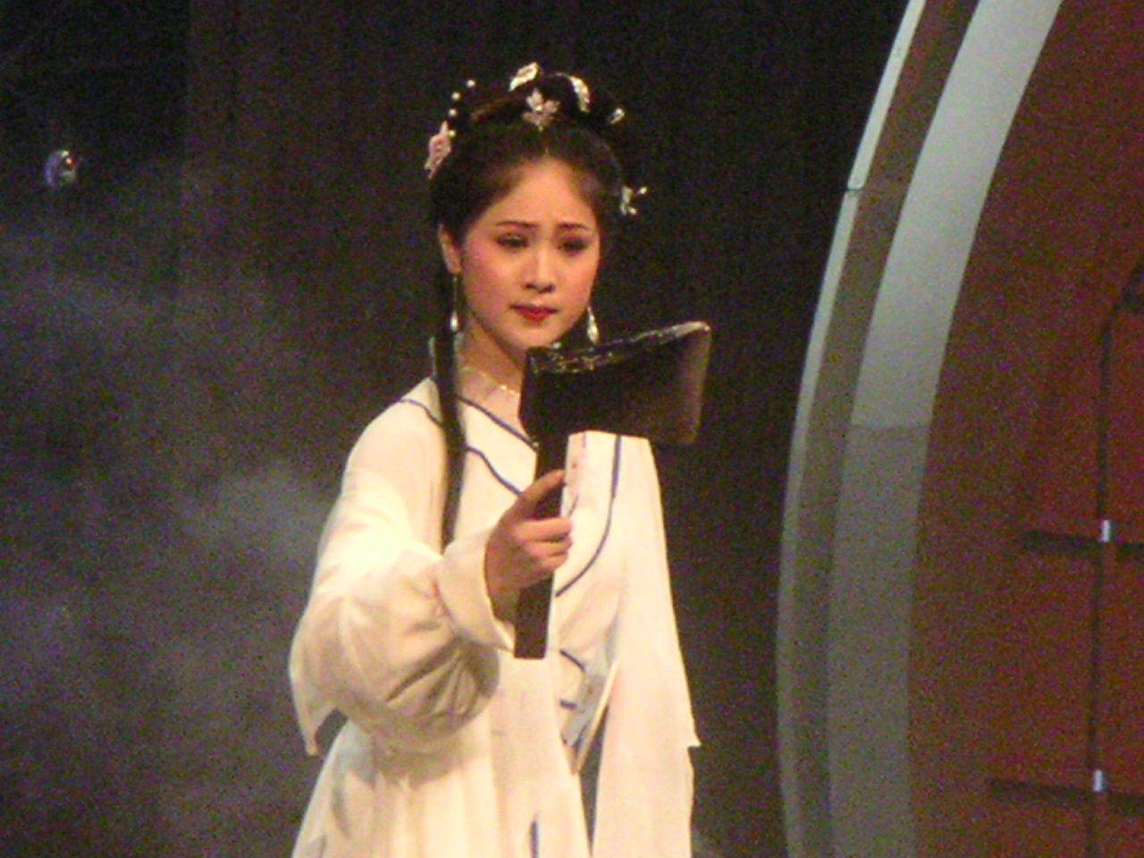 Li XuDian in a Shaoxing opera performance.